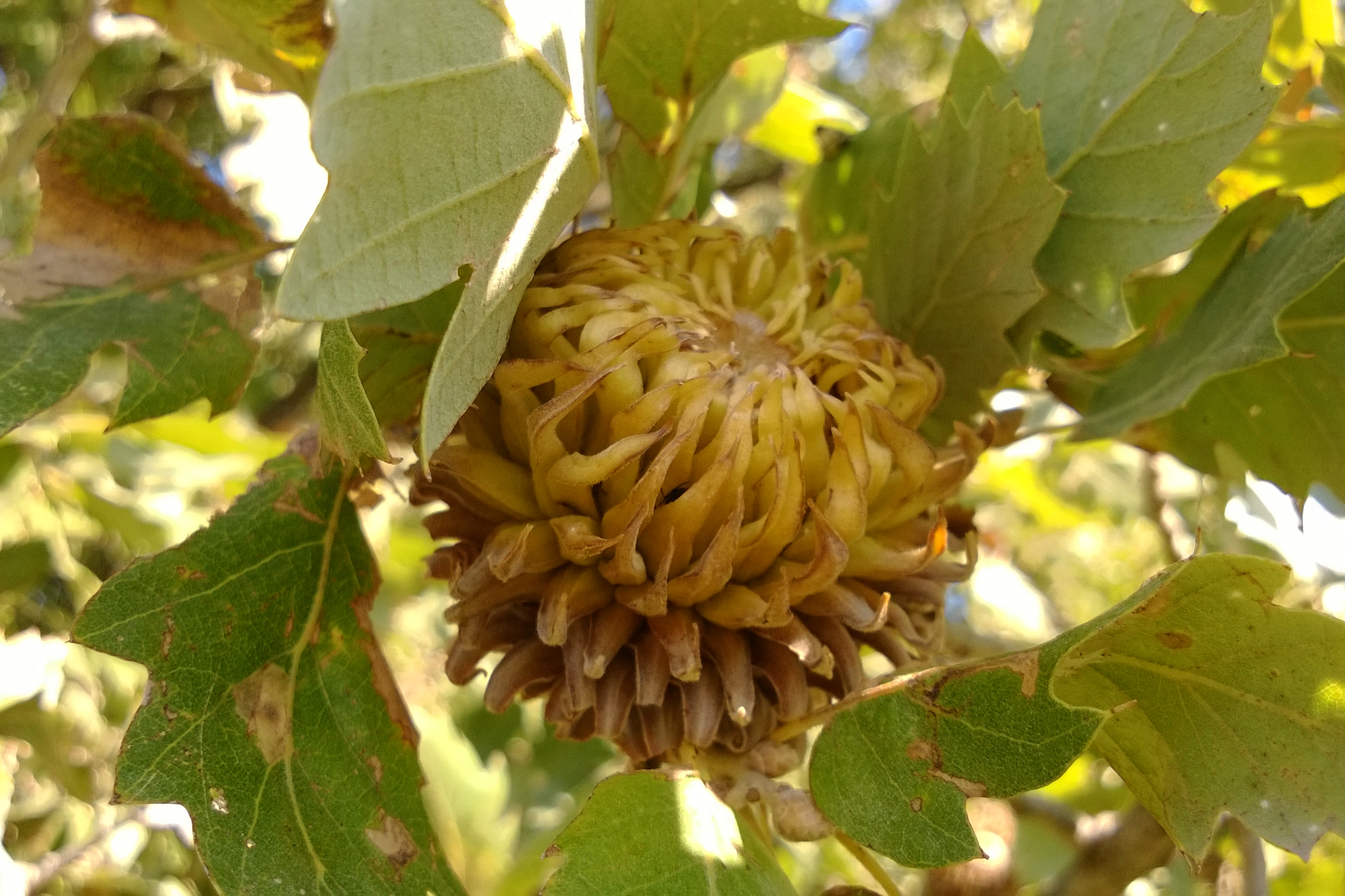 Quercus trojana tree